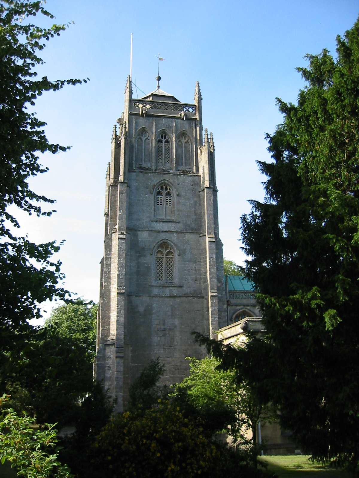 West tower of SS Peter and Paul parish church, Shepton Mallet, Somerset, seen from the south